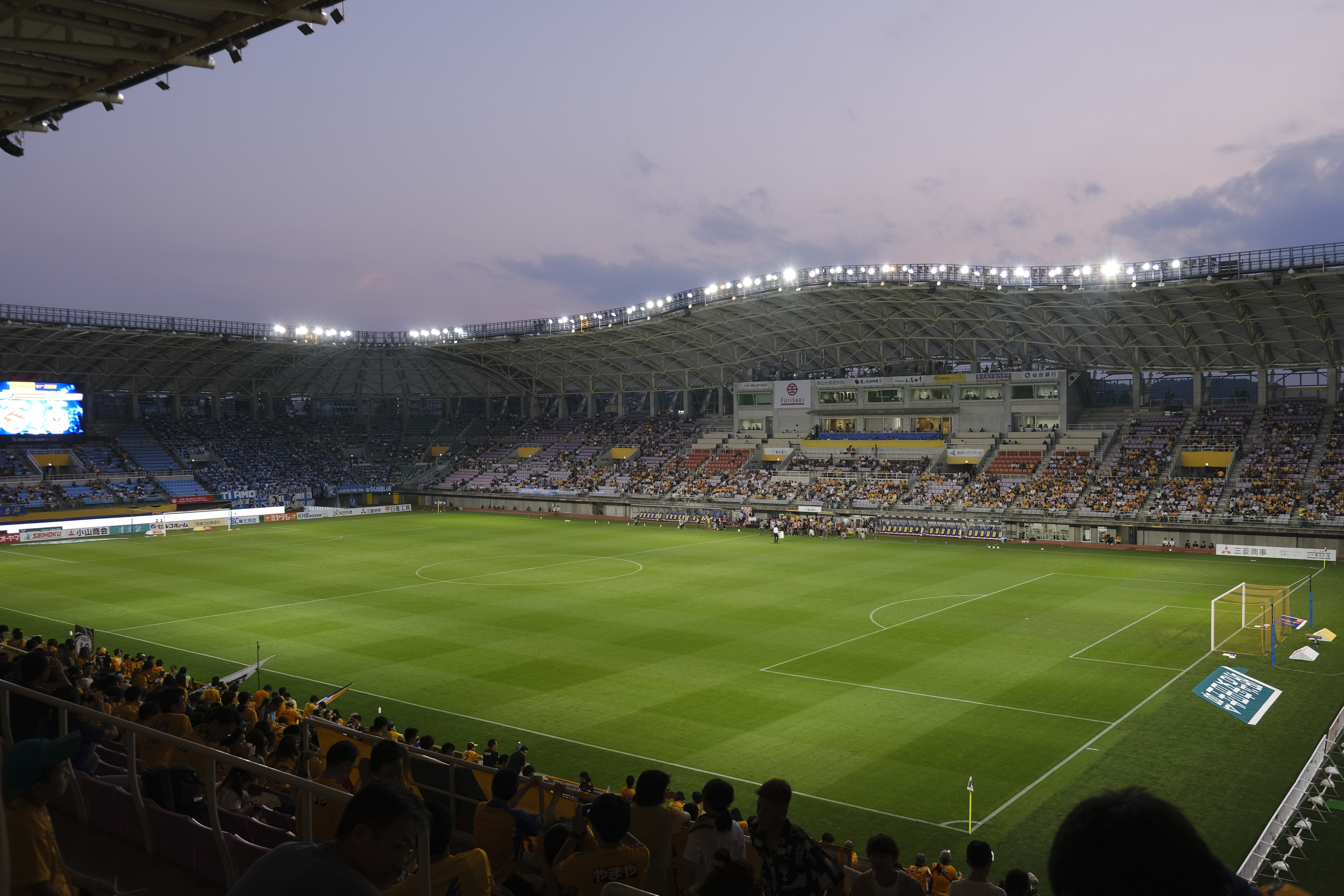 Mainstand of the Sendai-Stadium during a home match 2019